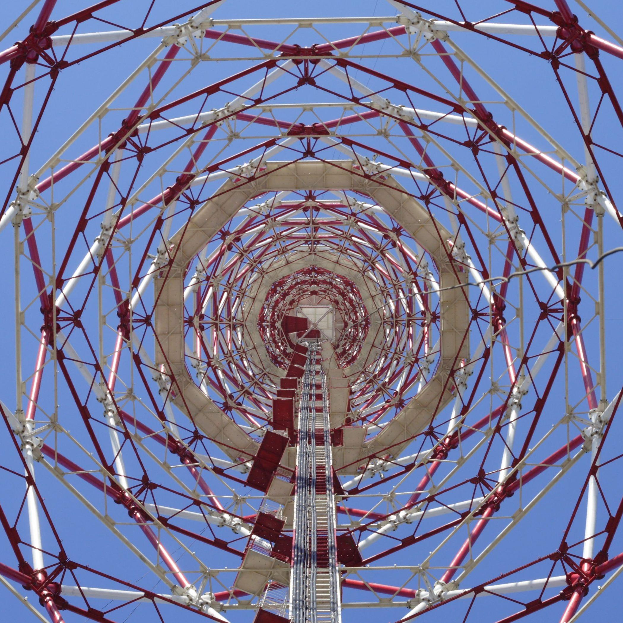 Steel radio tower in Moscow 258 m in height. View from below.